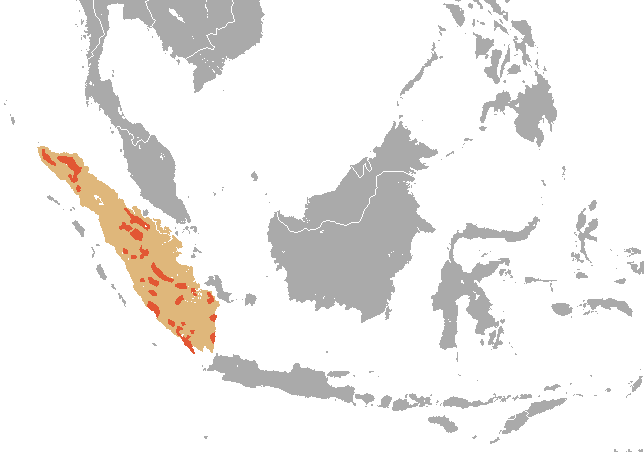 Elephas_maximus_sumatranus